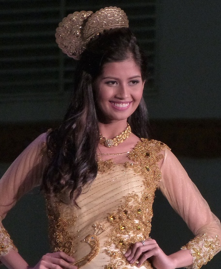 Shamcey Supsup models at a mall show in General Santos City in October 11, 2012.